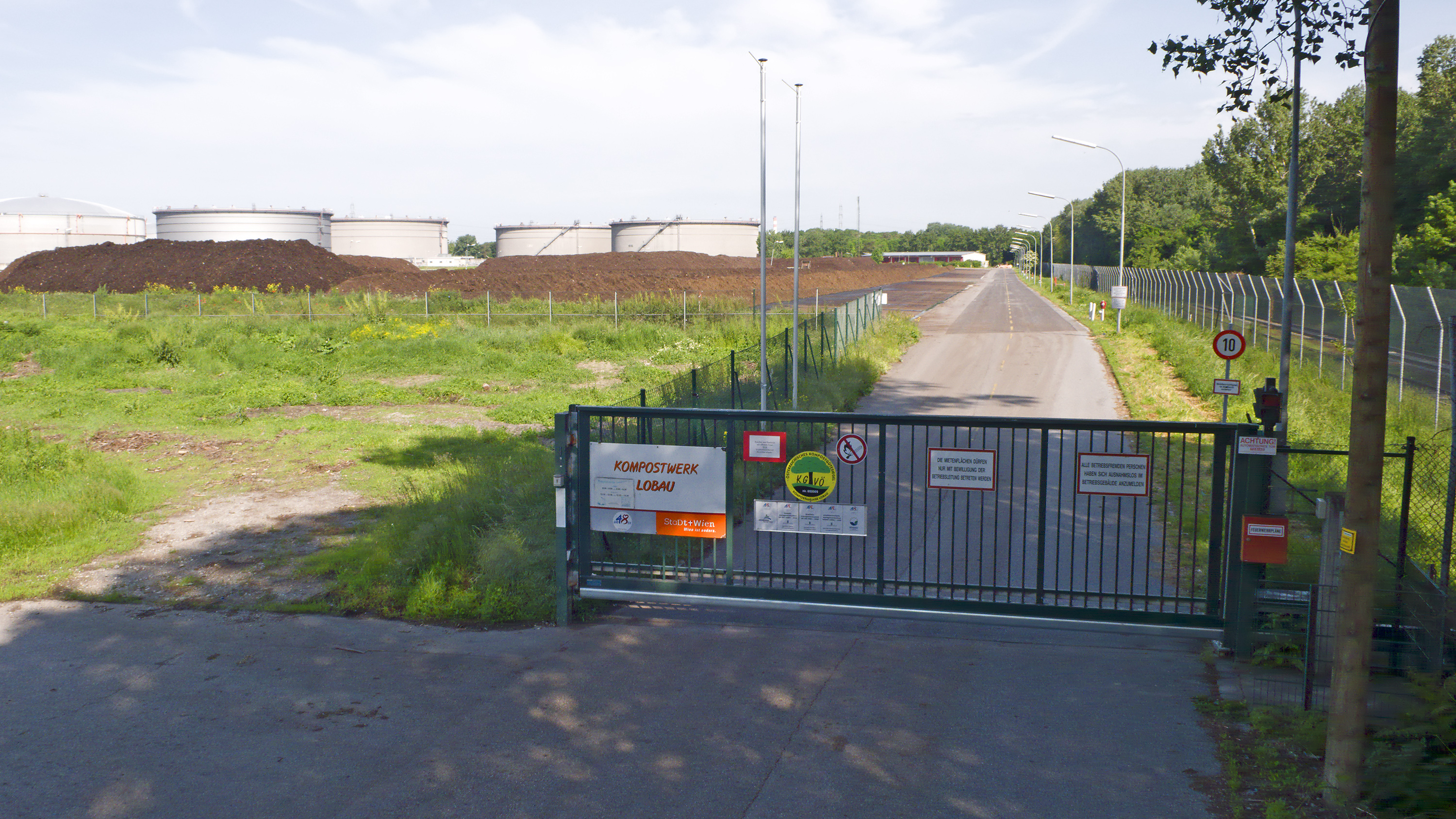 Kompostwerk Lobau in Vienna Donaustadt